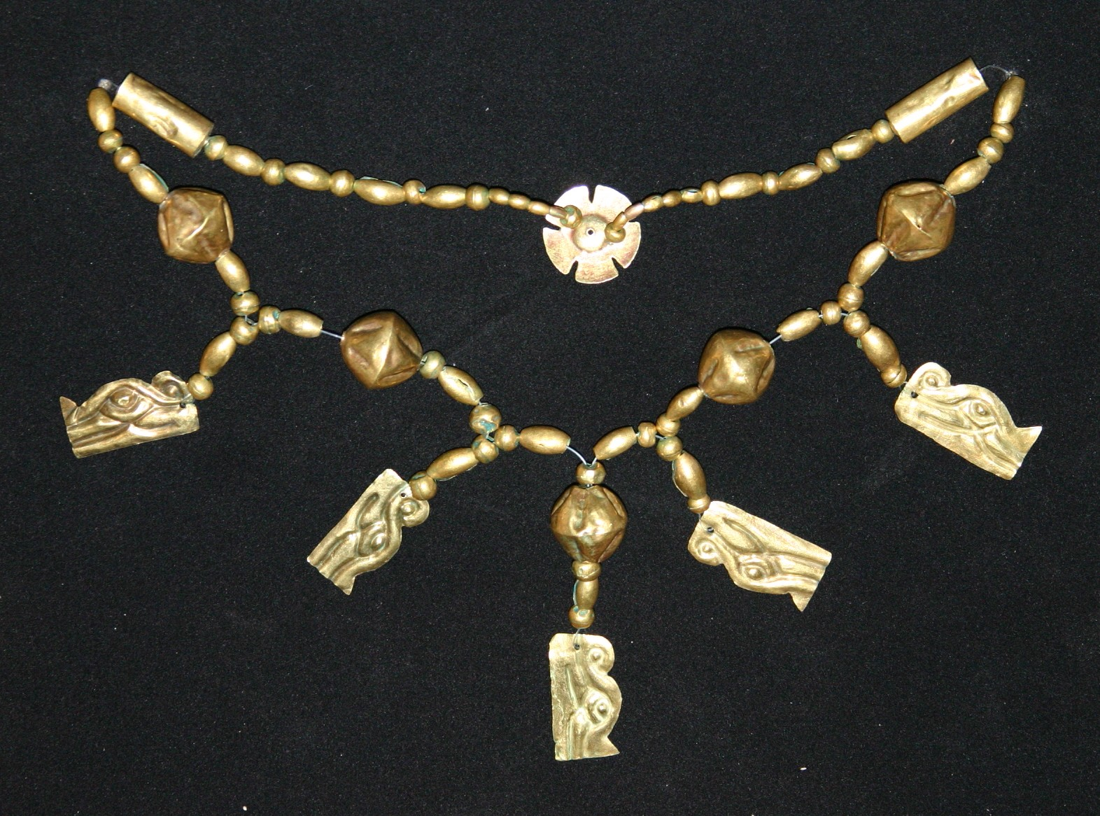 Chavin collar, gold